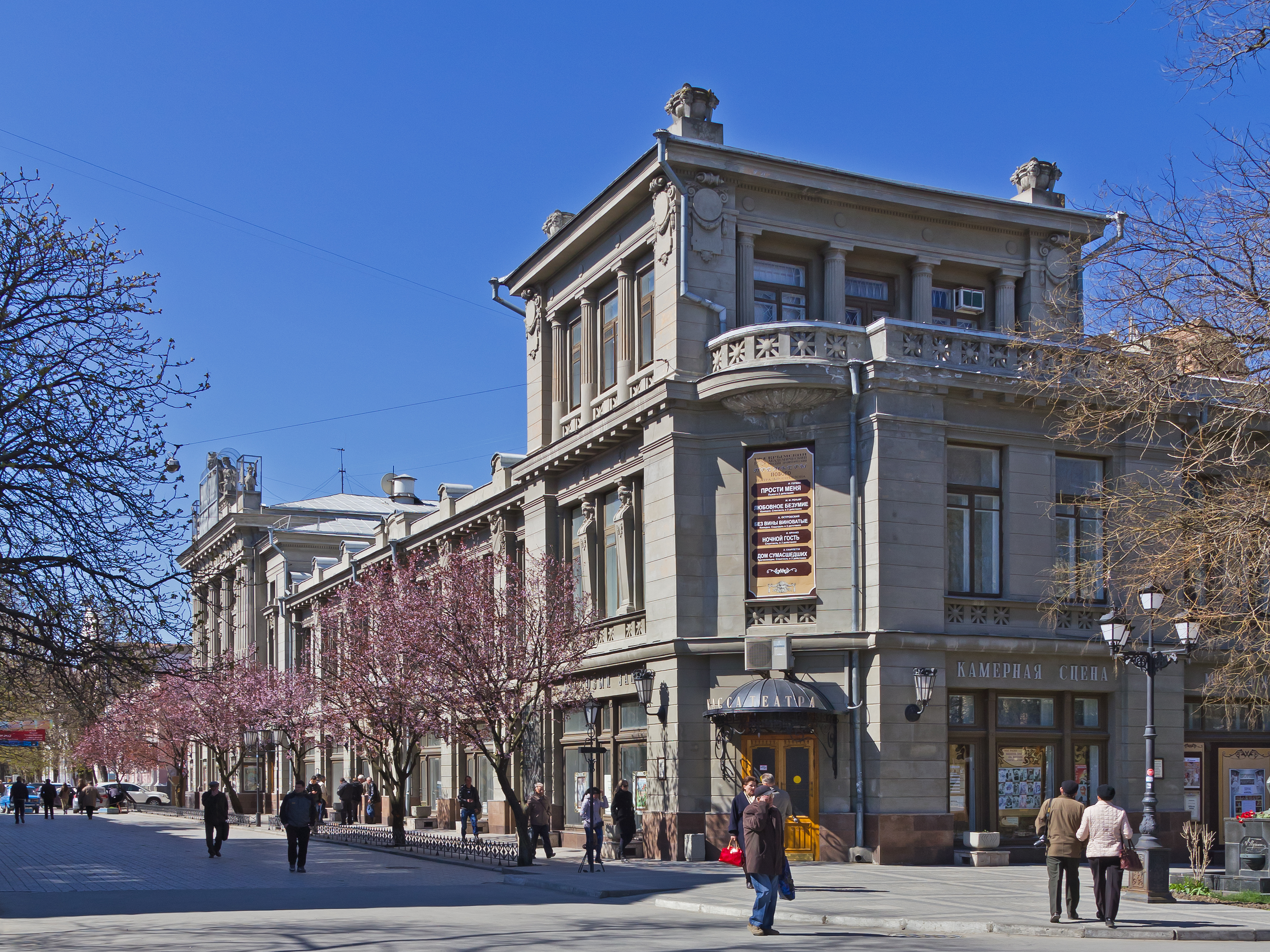 The Maxim Gorky Crimean Theatre in Simferopol, Crimean Peninsula.